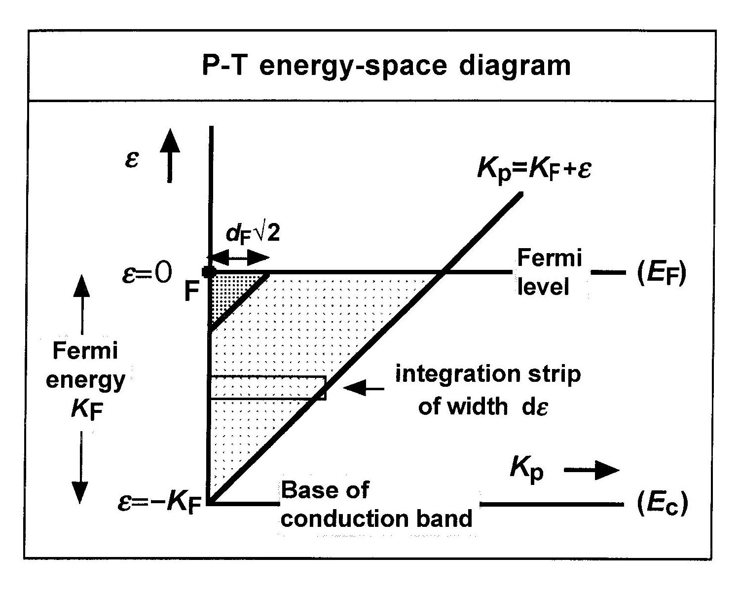 P-T ("Parallel-Total") energy-space diagram, used in the simple theory of field electron emission, based on the Sommerfeld free-electron model of a metal conduction band